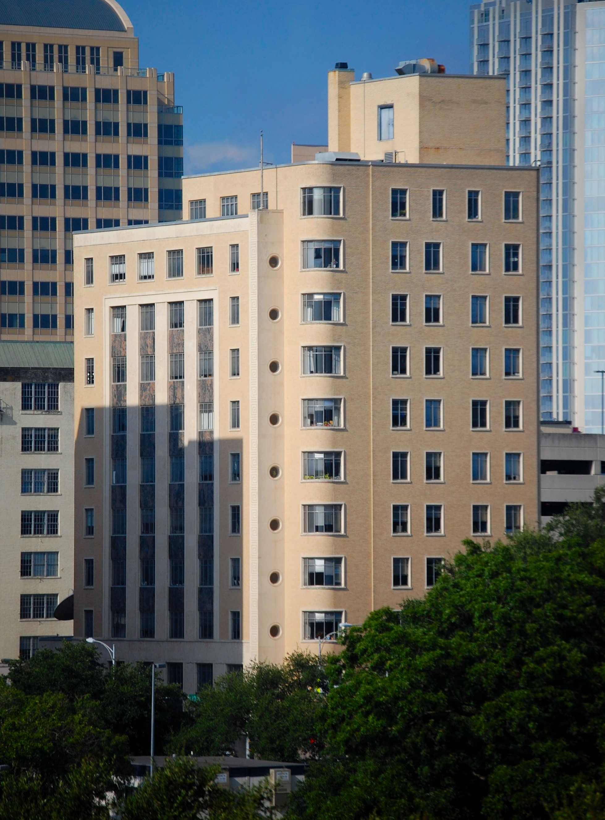 The Ernest O. Thompson Building houses the headquarters of the Texas Department of Licensing and Regulation. The building was originally known as the Austin Daily Tribune Building and housed a now-defunct Austin newspaper.